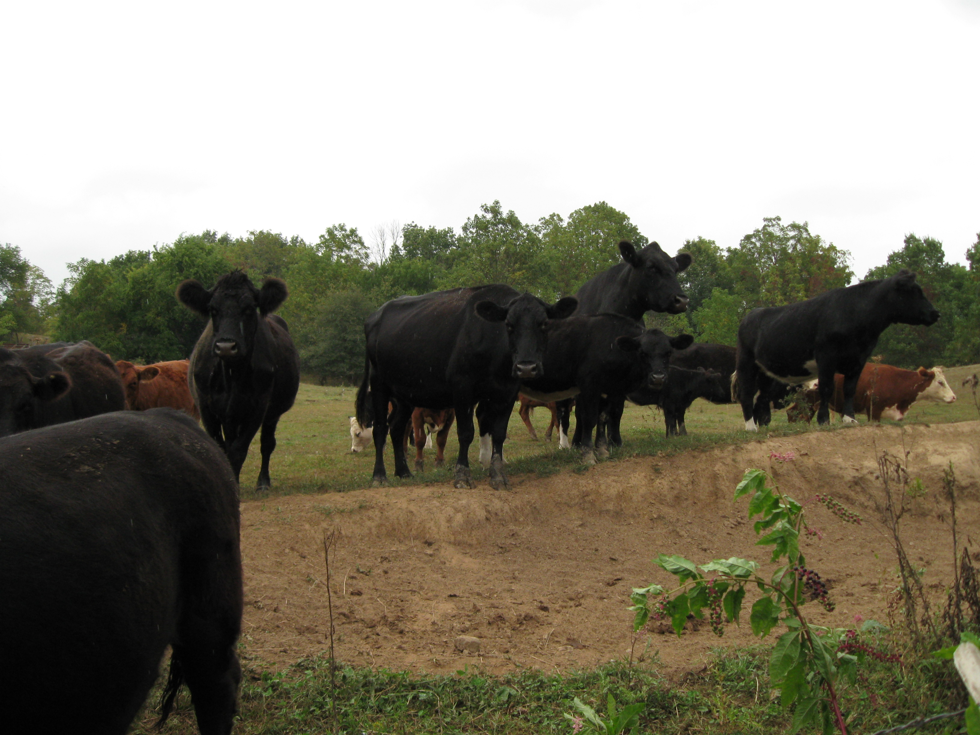 Cows